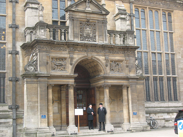 The porch of the Examination Schools in High Street, Oxford, seen from the north. The two people standing in the archway are "Bulldogs" of the University of Oxford, on duty when a Convocation was being held to elect a new Professor of Poetry.